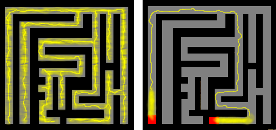 Slime mold solves maze. The mold (yellow) explored and filled the maze (left). When the researchers placed sugar (red) at 2 separate points, the mold concentrated most of its mass there and left only the most efficient connection between the two points. Ref:Nakagaki, T., Yamada H. and Tóth, Á. (September 2000). "Intelligence: Maze-solving by an amoeboid organism". Nature 407 (6803): 470. PMID 11028990. Retrieved on 2008-09-03.